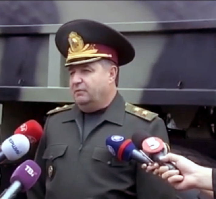 Stepan Poltorak, the commander of the National Guard of Ukraine.